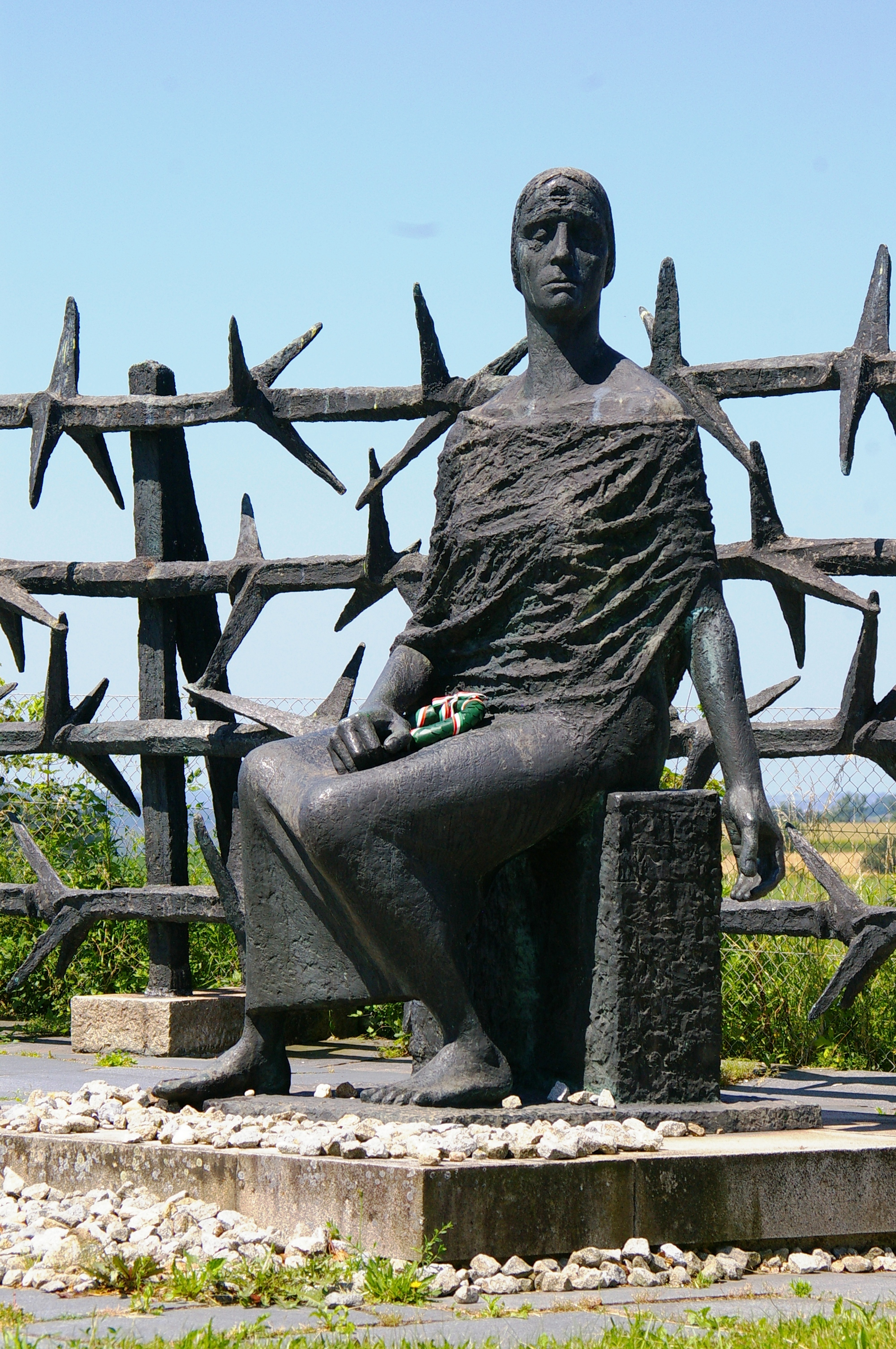 Nazi concentration camp